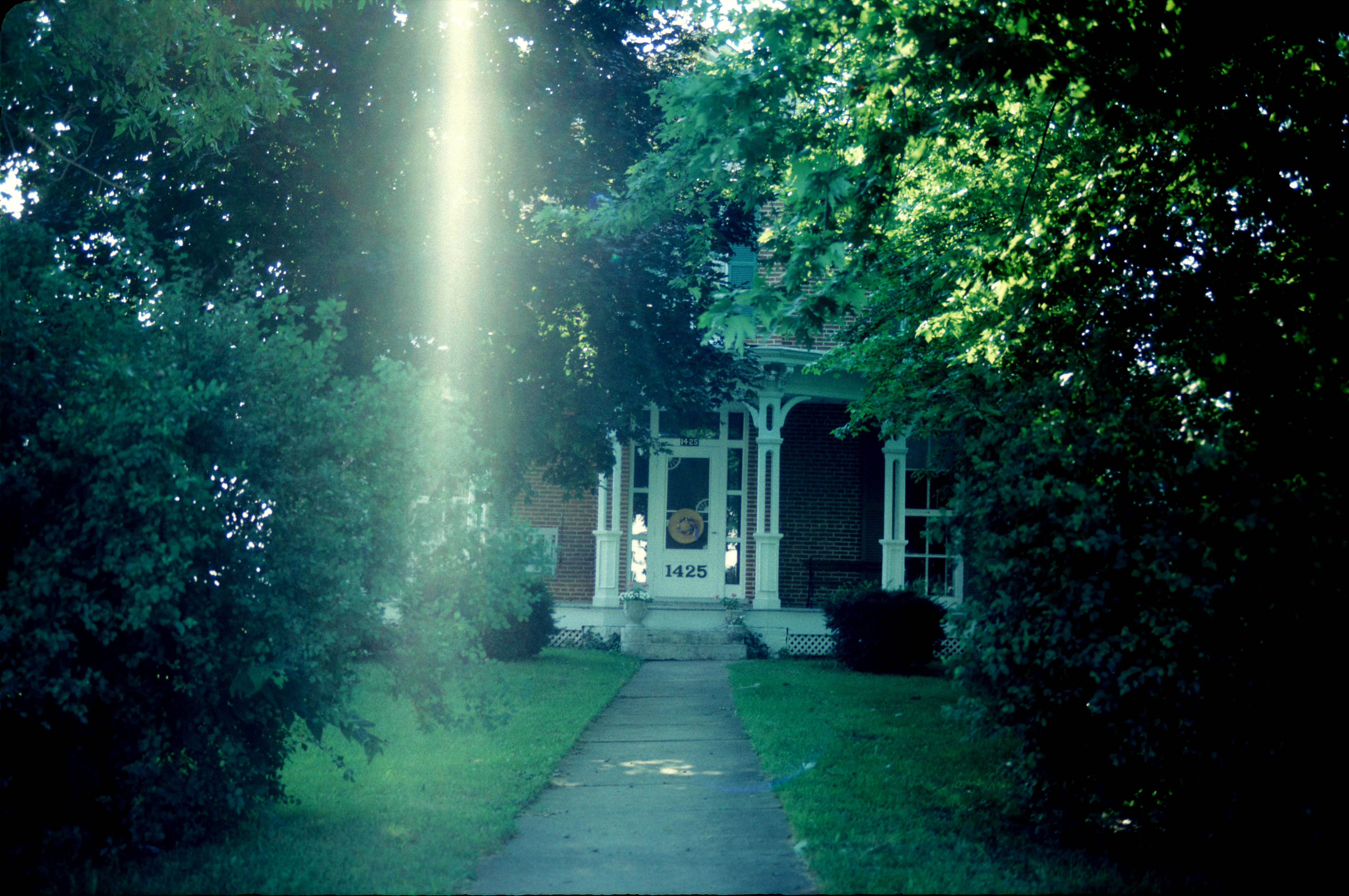 HOME OF JANE DARWELL - ACTRESS WHO PLAYED “MA JOAD” IN “GRAPES OF WRATH”